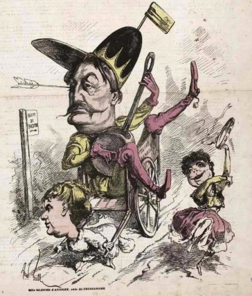 Caricature of the composer Herve